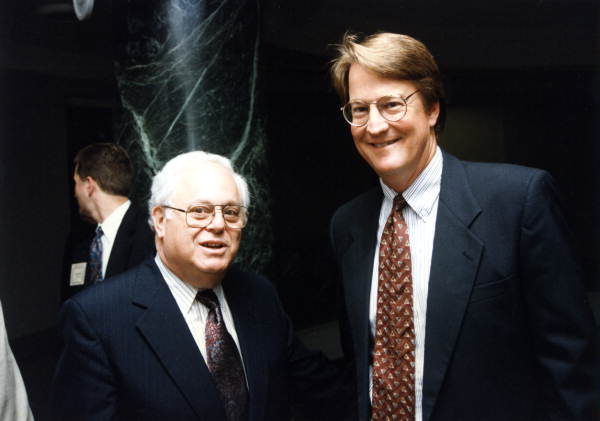 Accompanying note: "Florida Supreme Court Chief Justice Gerald Kogan, left, with Florida House Speaker Peter Rudy Wallace during ceremony to pass the Chief Justice gavel from Chief Justice Stephen Grimes to Kogan."